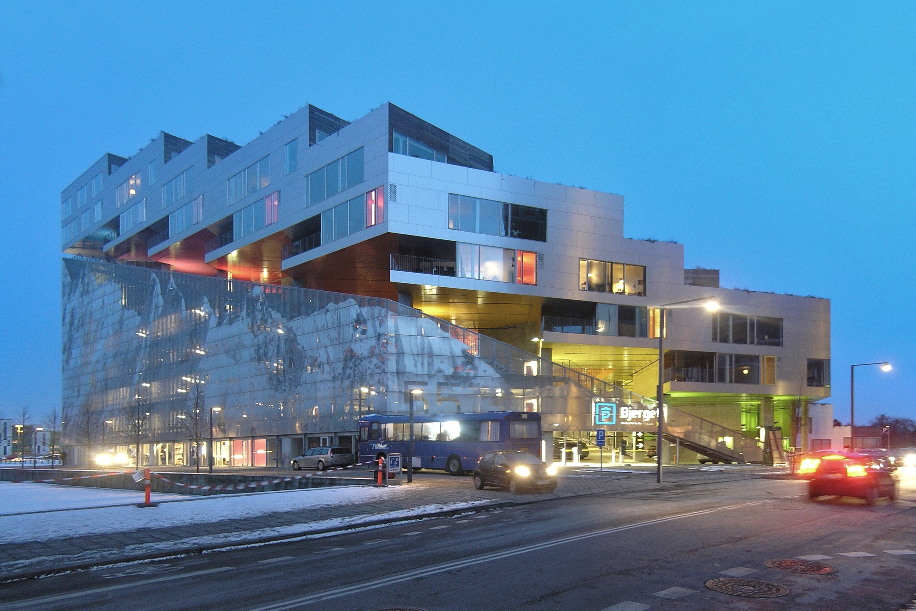 Mountain Dwellings (Danish: Bjerget), an award-winning building in the Ørestad district of Copenhagen, Denmark.